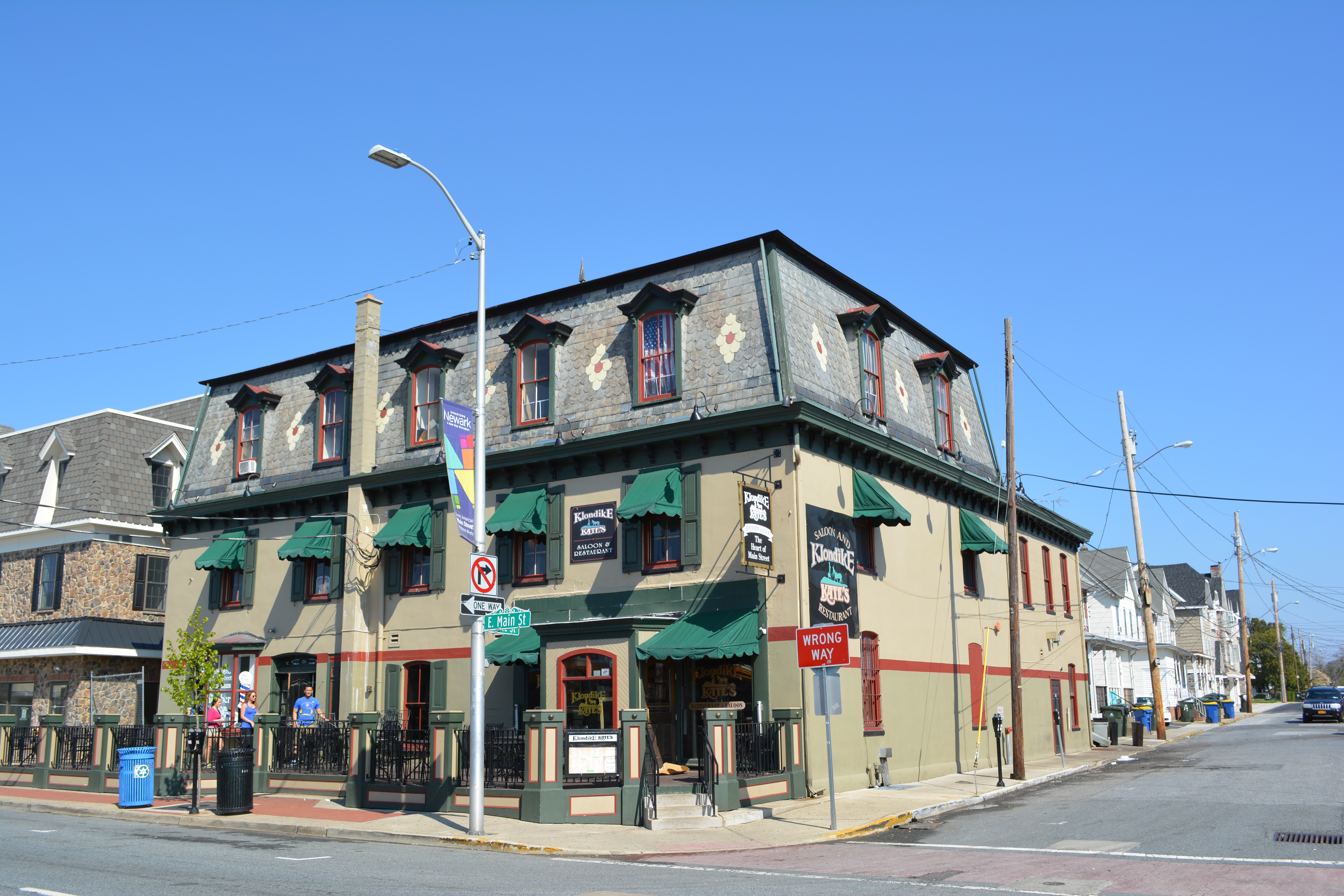 Building on Main Street, Newark, Delaware near the University of Delaware. Now a bar called Klondike Katie's. This is the Exchange Building listed on the NRHP on May 7, 1982 (#82002343) at 154-158 E. Main St.